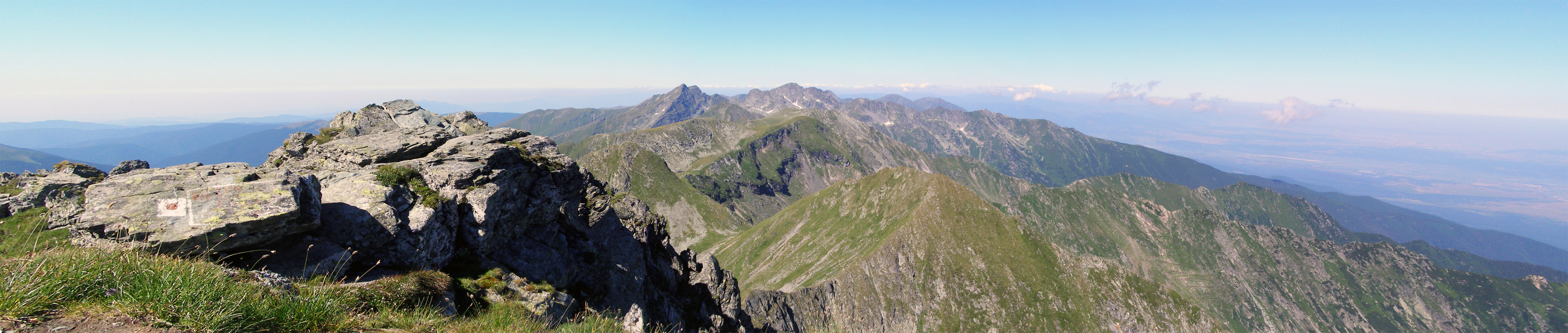 Taken from "Vanatoarea lui Buteanu" peak (FÄƒgÄƒraÅŸ mountains)